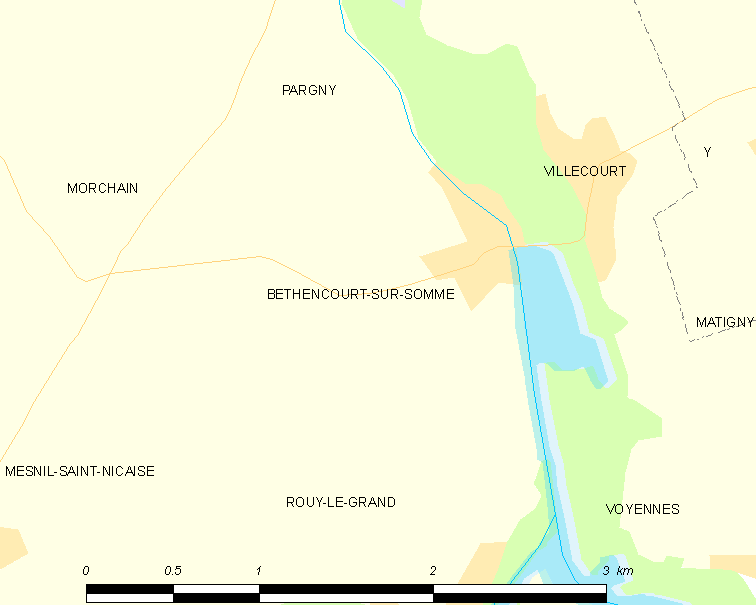 Map of French municipality Béthencourt-sur-Somme